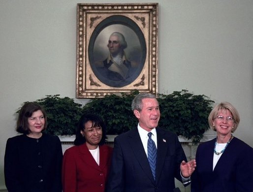 President George W. Bush introduces his judicial nominees Justice Priscilla Owen, left, Justice Janice Rogers Brown, center, and Judge Carolyn Kuhl in the Oval Office Thursday, Nov. 13, 2003. White House photo by Eric Draper